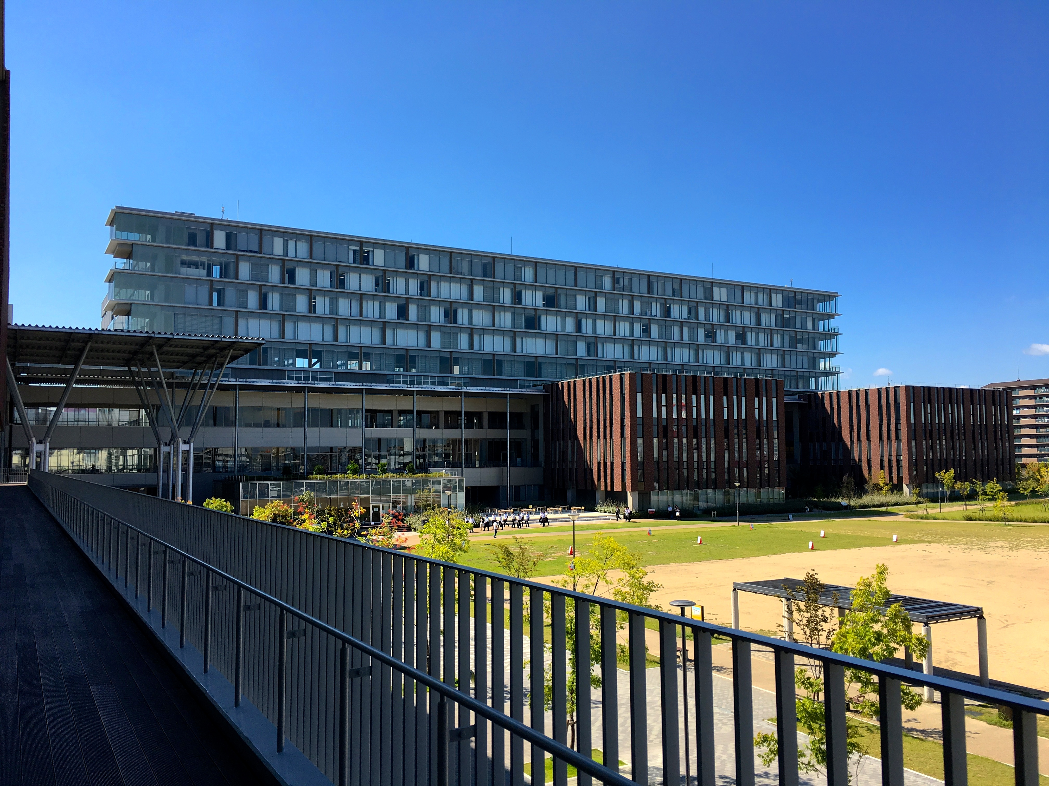 Building A at Ritsumeikan Univ Osaka Ibaraki Campus